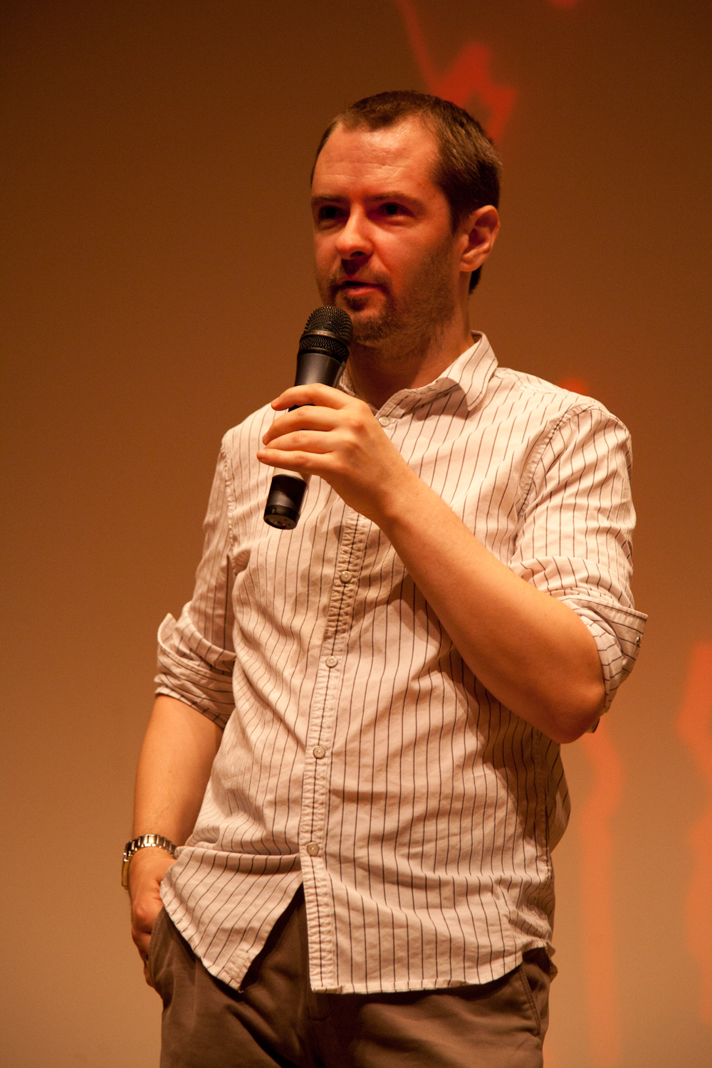 Stuart Hazeldine introduces his film "Exam" at the British film festival. Dinard, France.